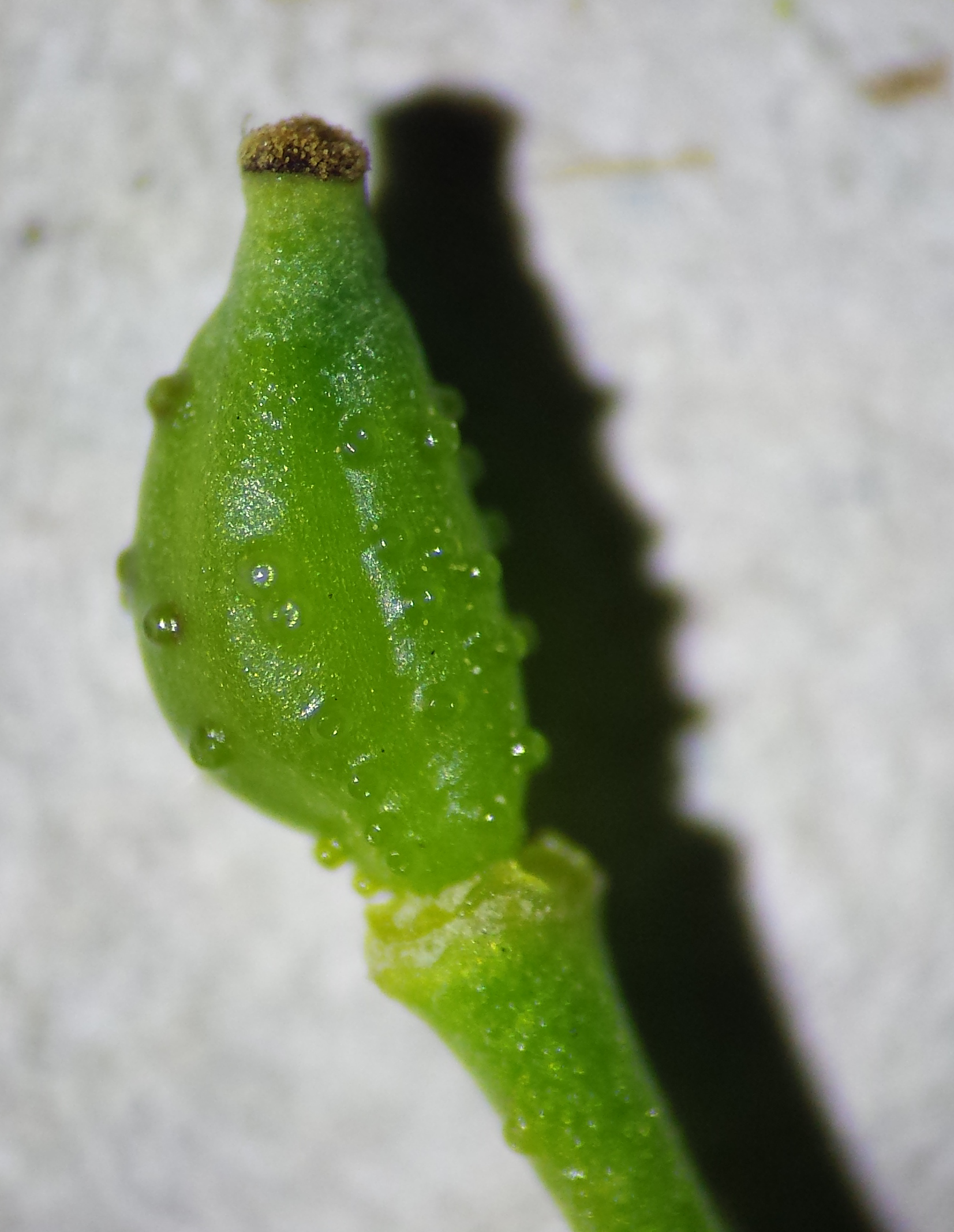 Fruit Taxon: Bunias orientalis (sensu Fischer et al. EfÖLS 2008 ISBN 978-3-85474-187-9) Location: Ziegelei Steingassner, district Mistelbach, Lower Austria - ca. 260 m a.s.l. Habitat: roadside